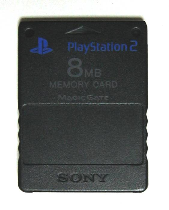 8MB Memory Card for PlayStation 2 (SCPH-10020), supported MagicGate technology.